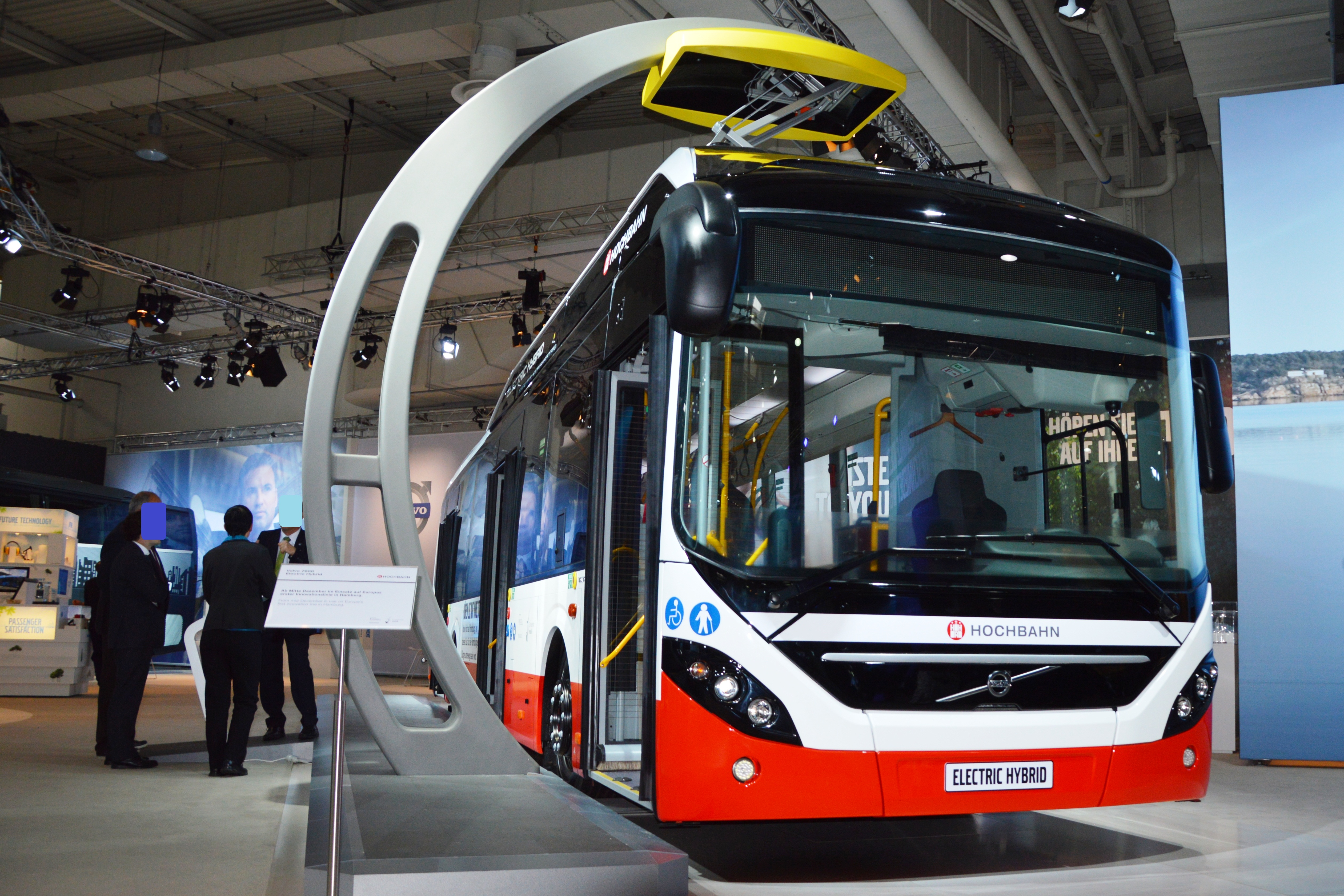 Volvo 7900 electric hybrid. Engines: 1 x Diesel 240 hp Volvo D5K 240, 4-cylinder (common rail injection) Euro 6 and 1 x electric motor 150 kW Volvo I-SAM. Length: 12 m. For up to 95 passengers (incl. 32 + 1 seats). Since December 2014 in use at Hamburger Hochbahn